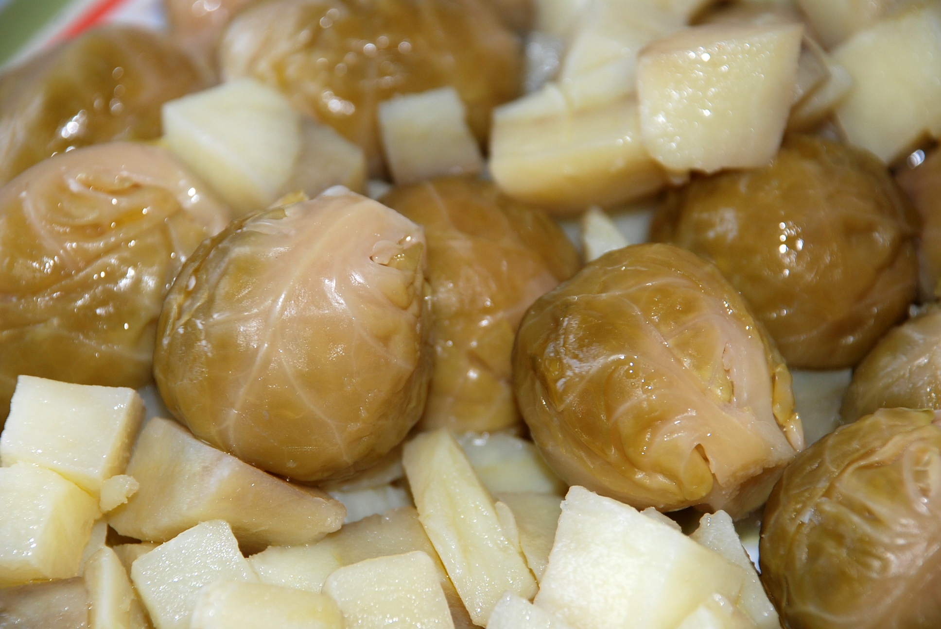 Brussels sprouts based food in Spain.